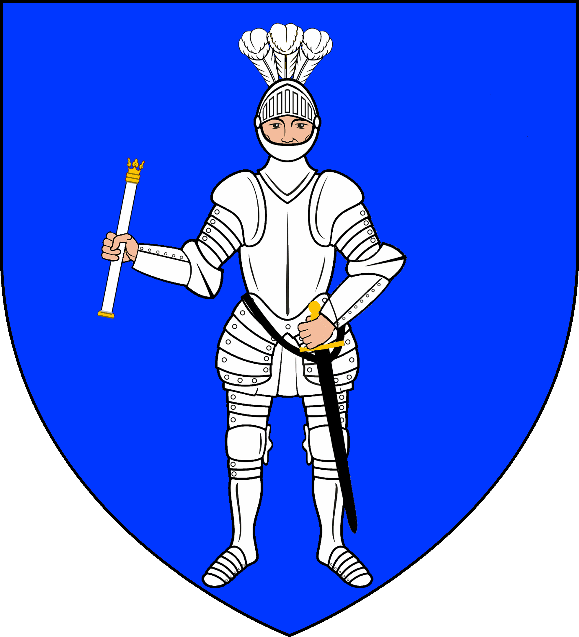 Stemma dei Valdina. Príncipes en Sicilia